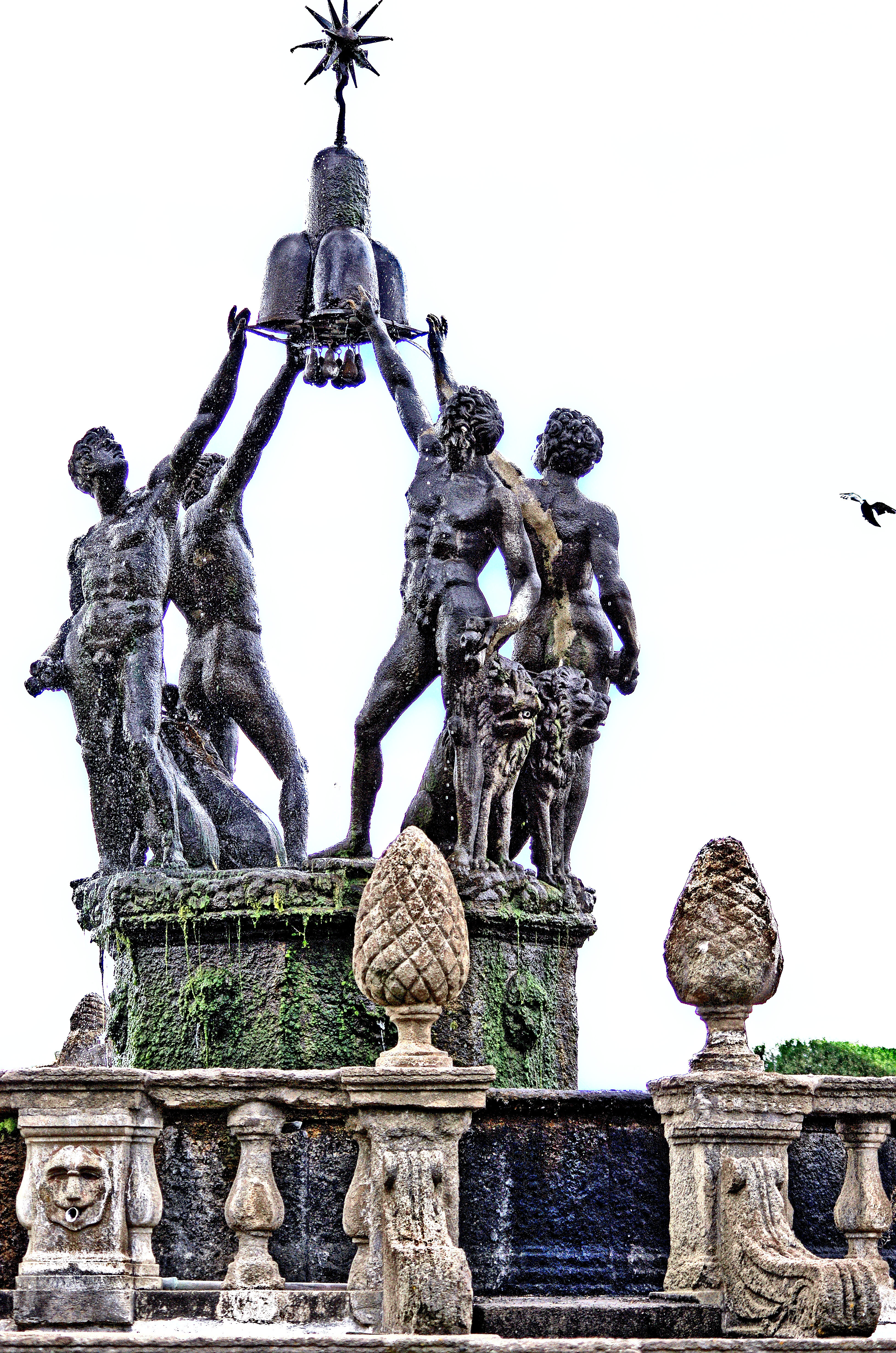 [Villa Lante (Bagnaia)] , Viterbo VT, Italy Villa Lante (Bagnaia), siepi di bosso, fontane, giardini sculture, Rinascimento, architettura, pittura prospettiva, voliera photo Paolo Villa VR 2016 copyright